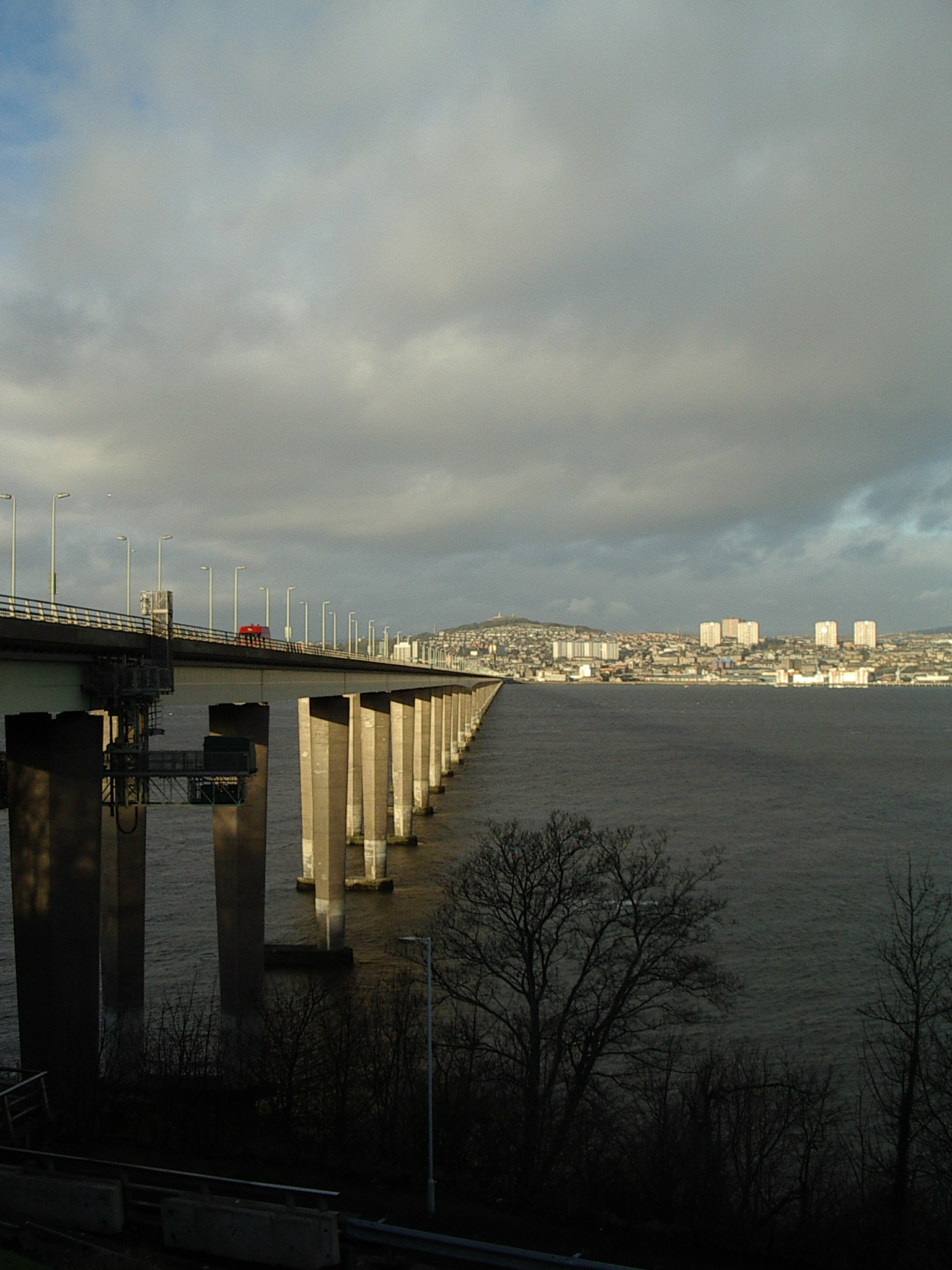 The Tay Road Bridge, looking north across the Firth of Tay towards Dundee